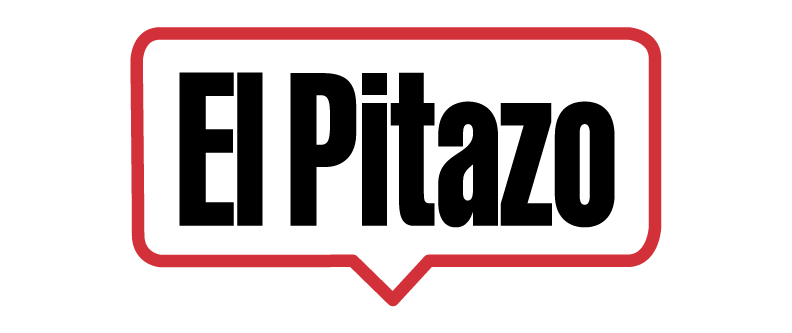 Recreated logo of media company El Pitazo; replica of logo from El Pitazo.